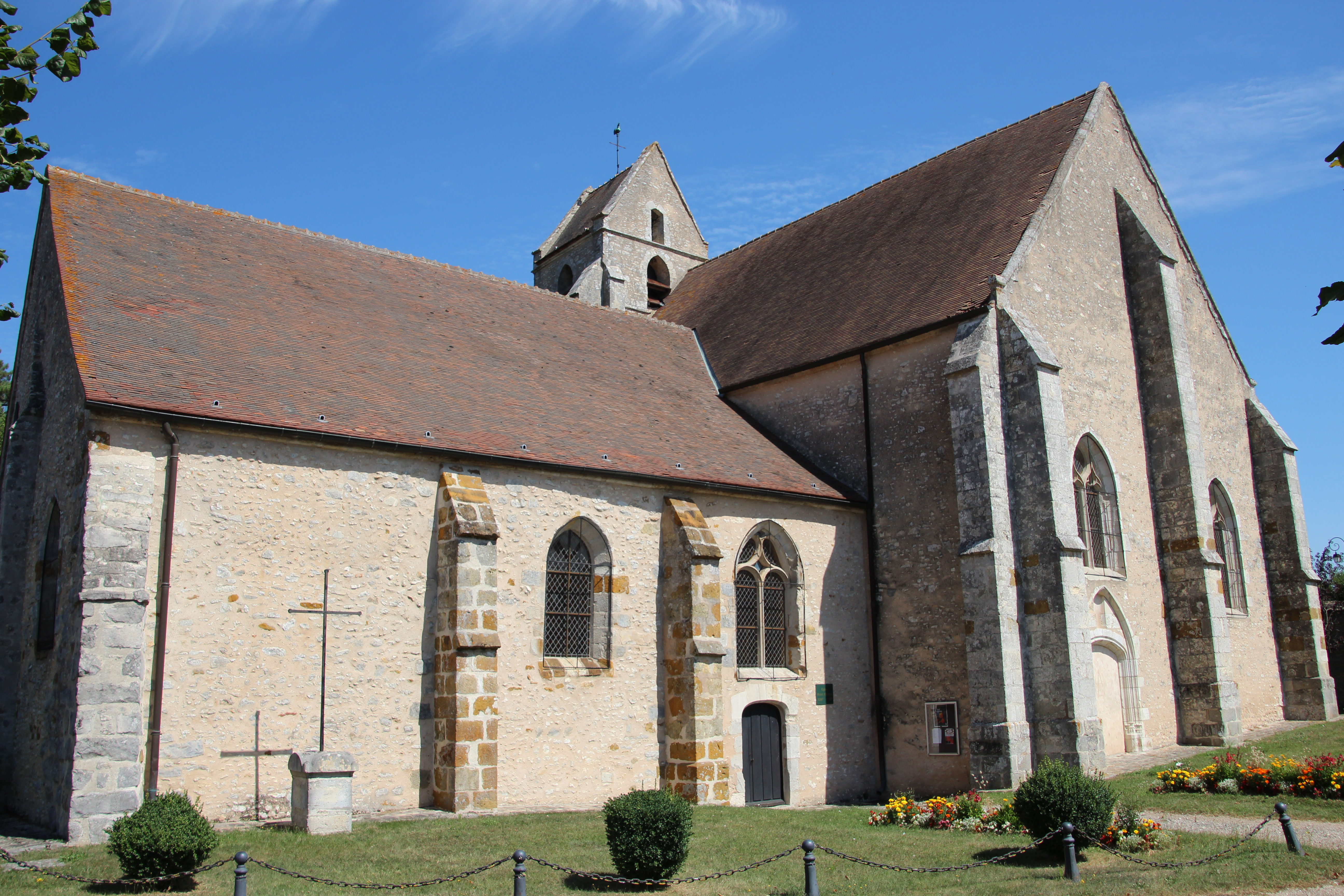 Saint-Quentin church of Brières-les-Scellés, France